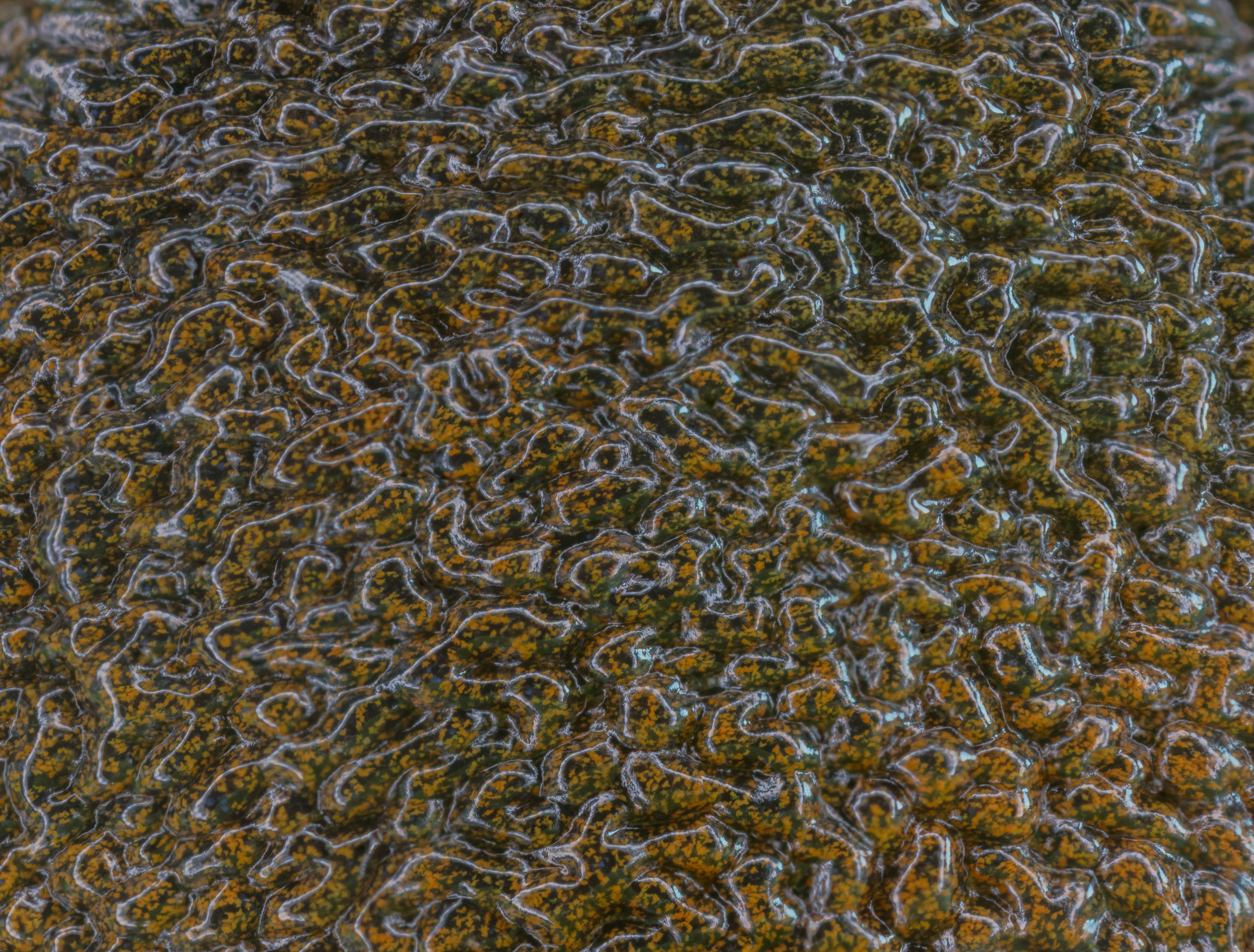 Black slug (Arion ater), Hartelholz, Munich, Germany